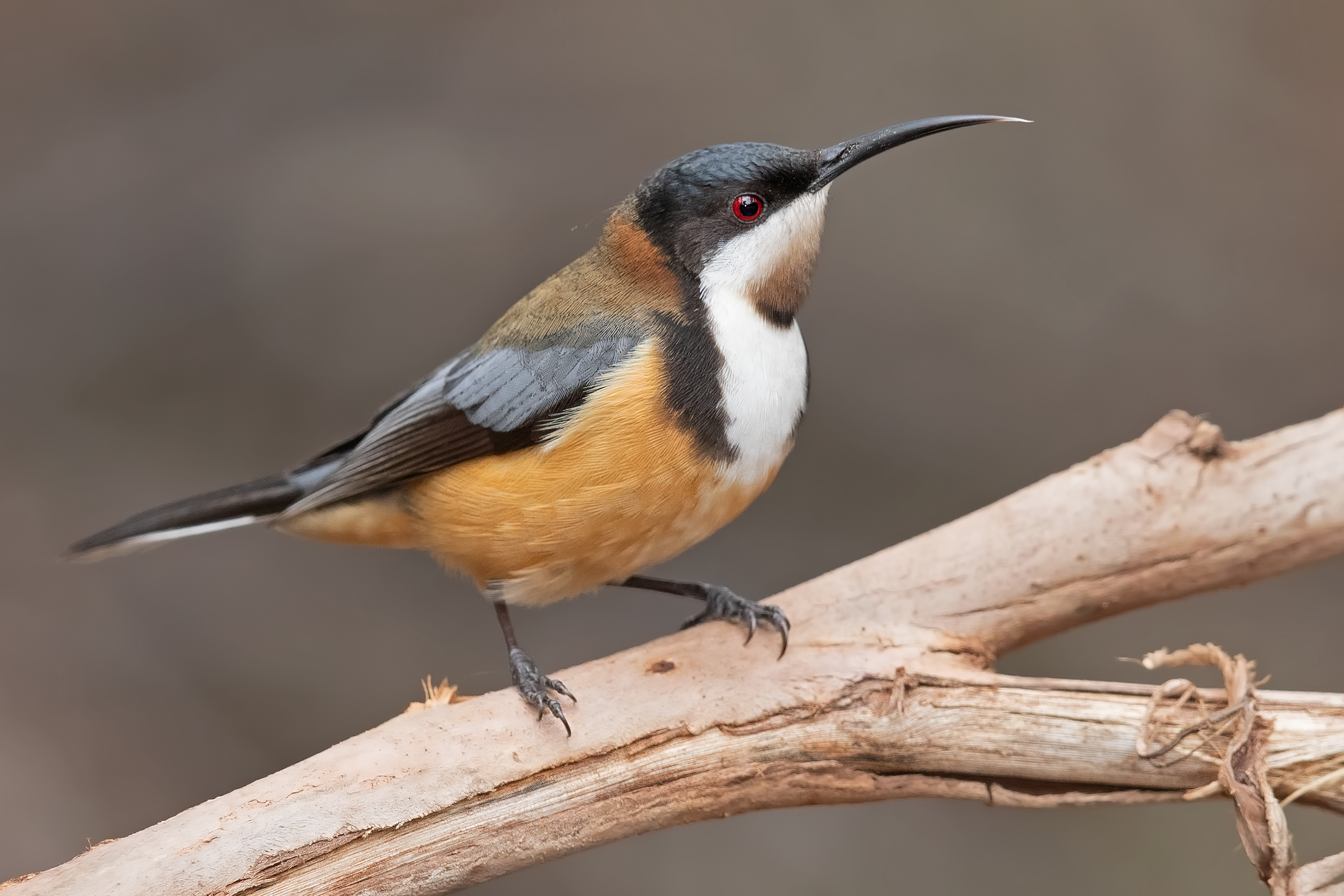 Eastern Spinebill (Acanthorhynchus tenuirostris), Mogo Campground, New South Wales, Australia